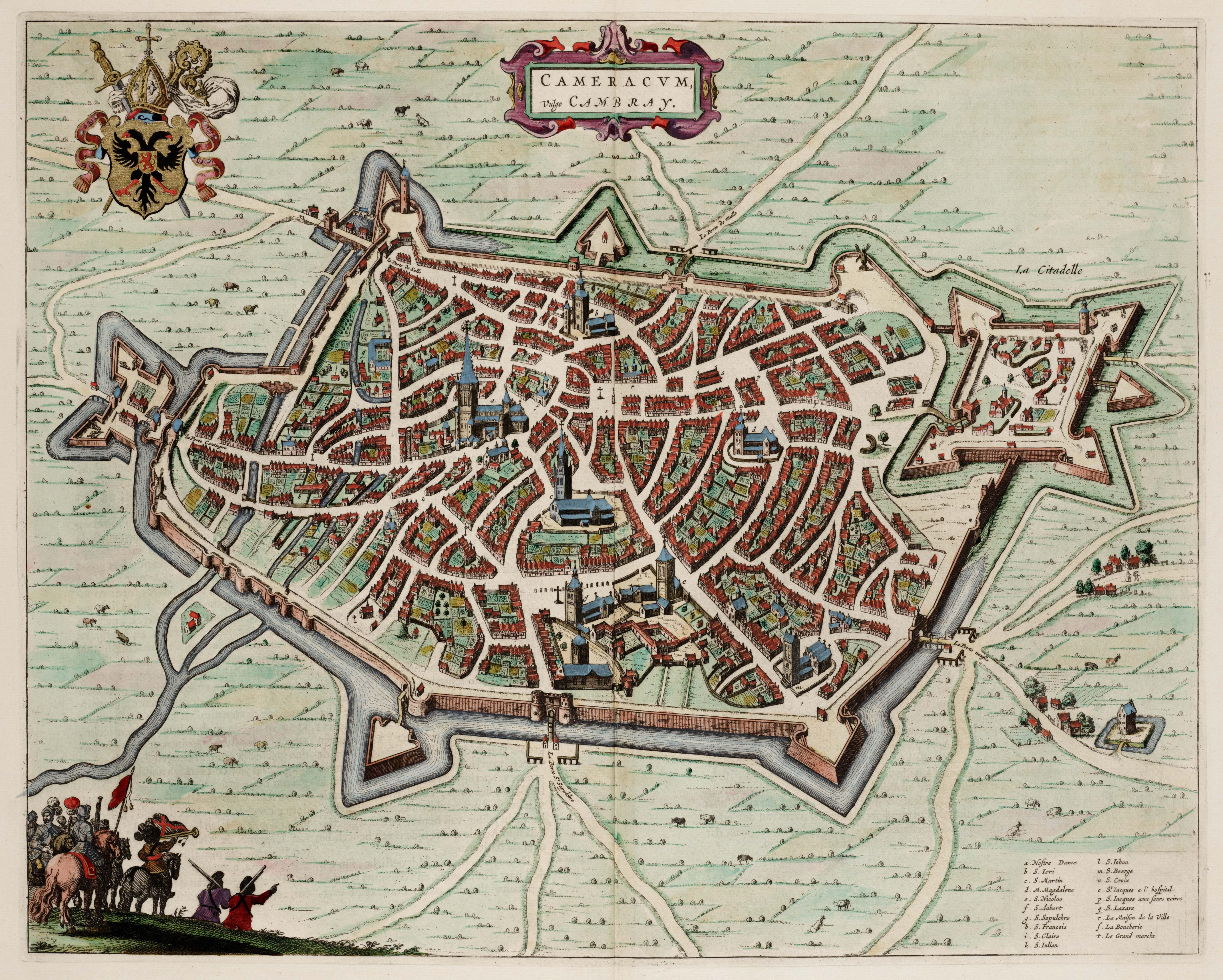 Cambrai (Dutch: Kamerijk)